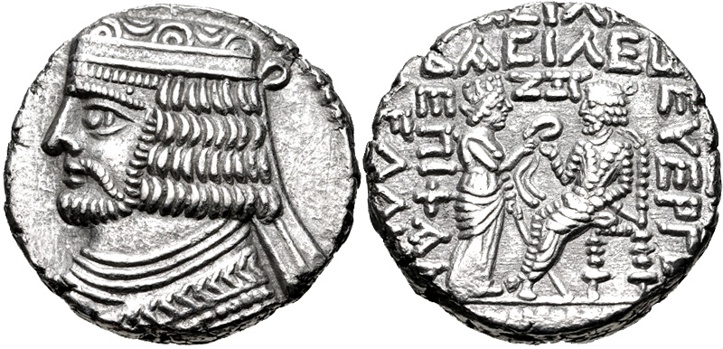 Coin of Vardanes II, Seleucia mint.